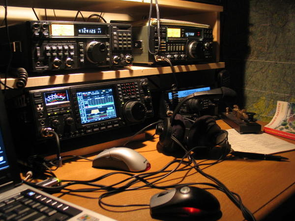 Amateur radio station of John J. O'Brien, NX1Z